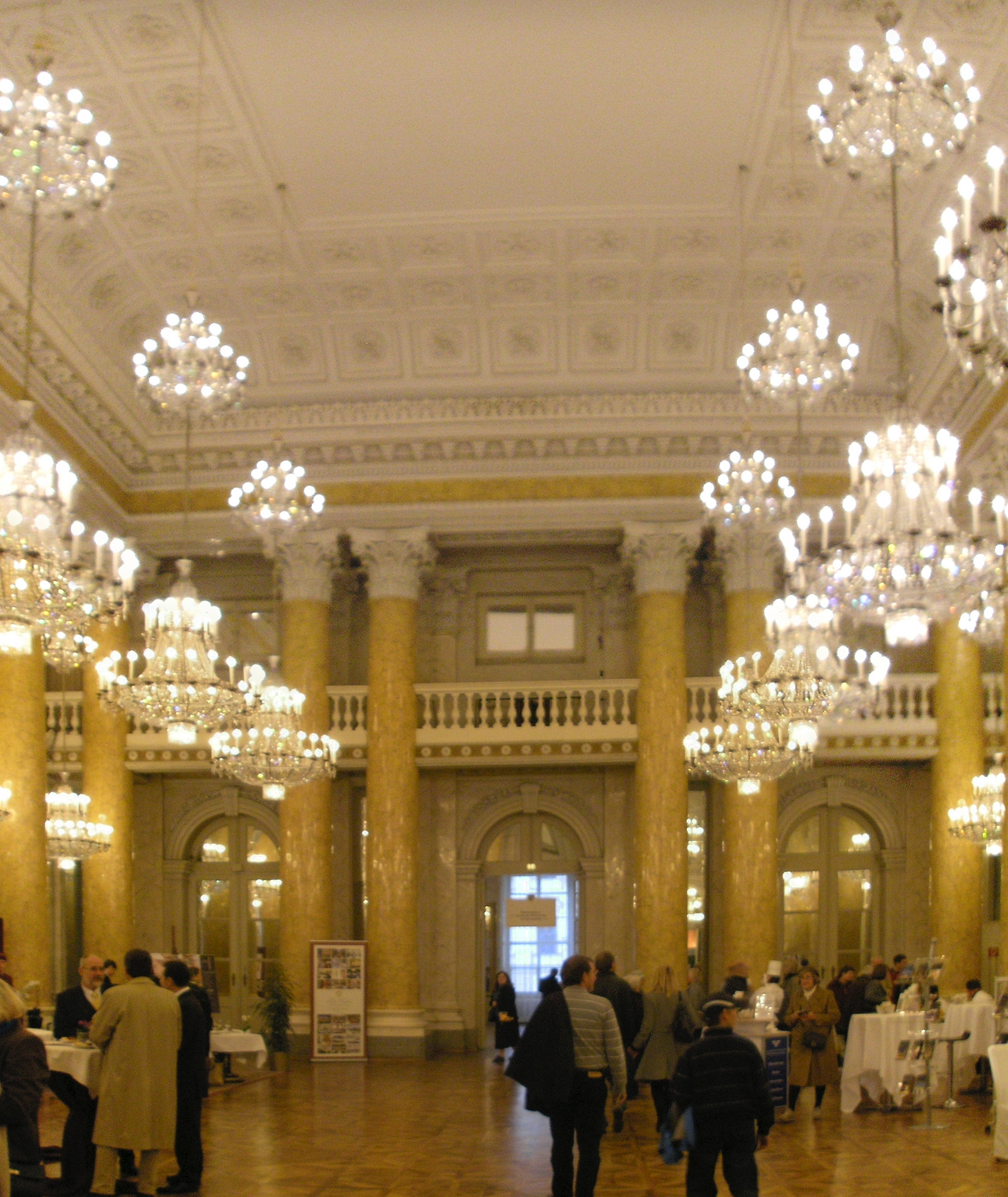 Zeremoniensaal in the Hofburg.